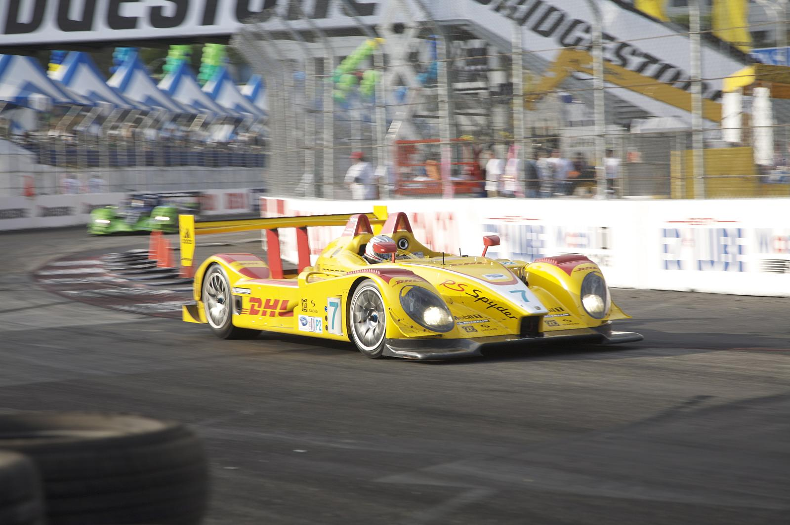 Long Beach Grand Prix ALMS IMSA 2008 Long Beach Grand Prix ALMS IMSA 2008